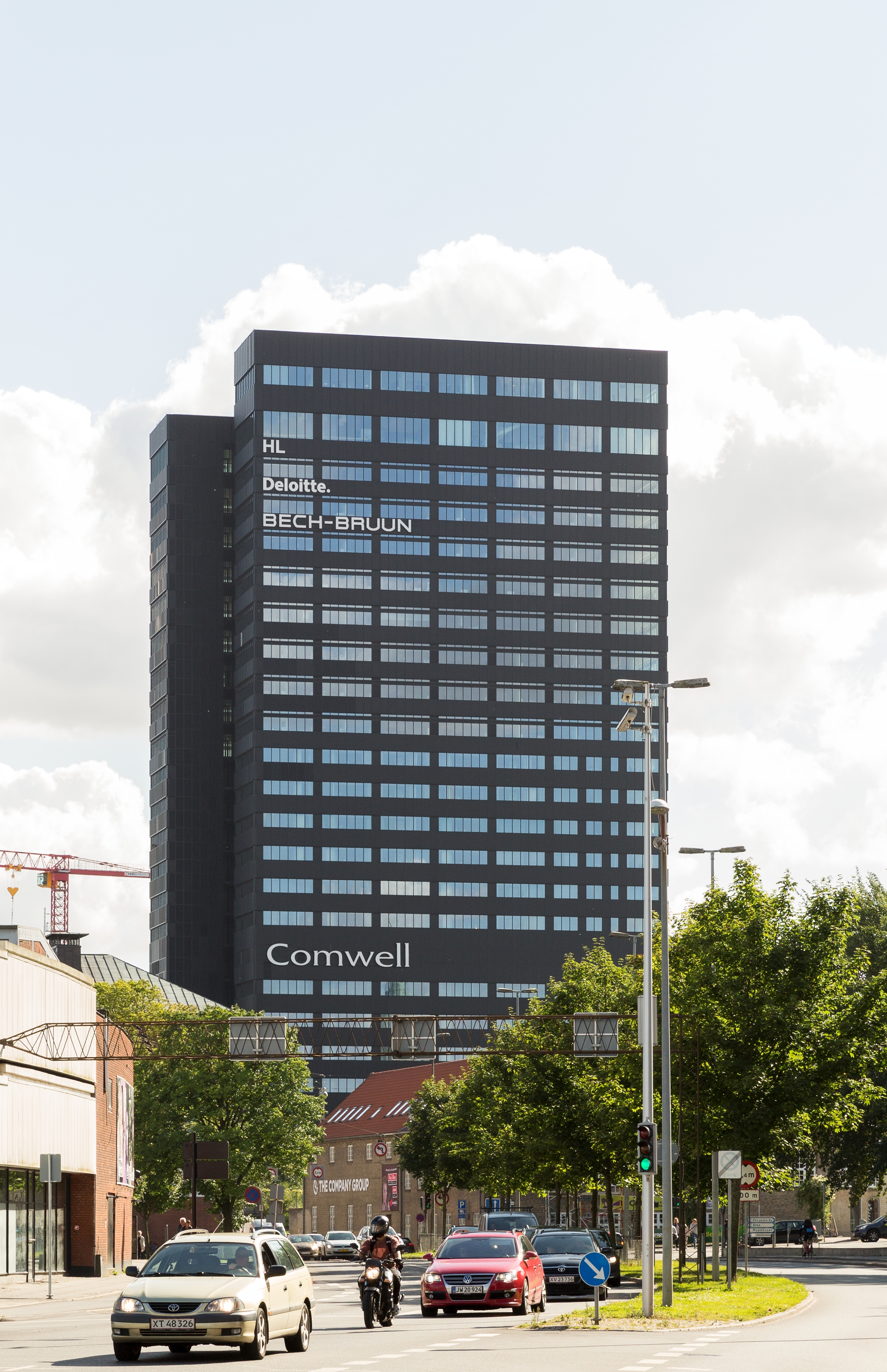 Aarhus City Tower seen from Europa Plads